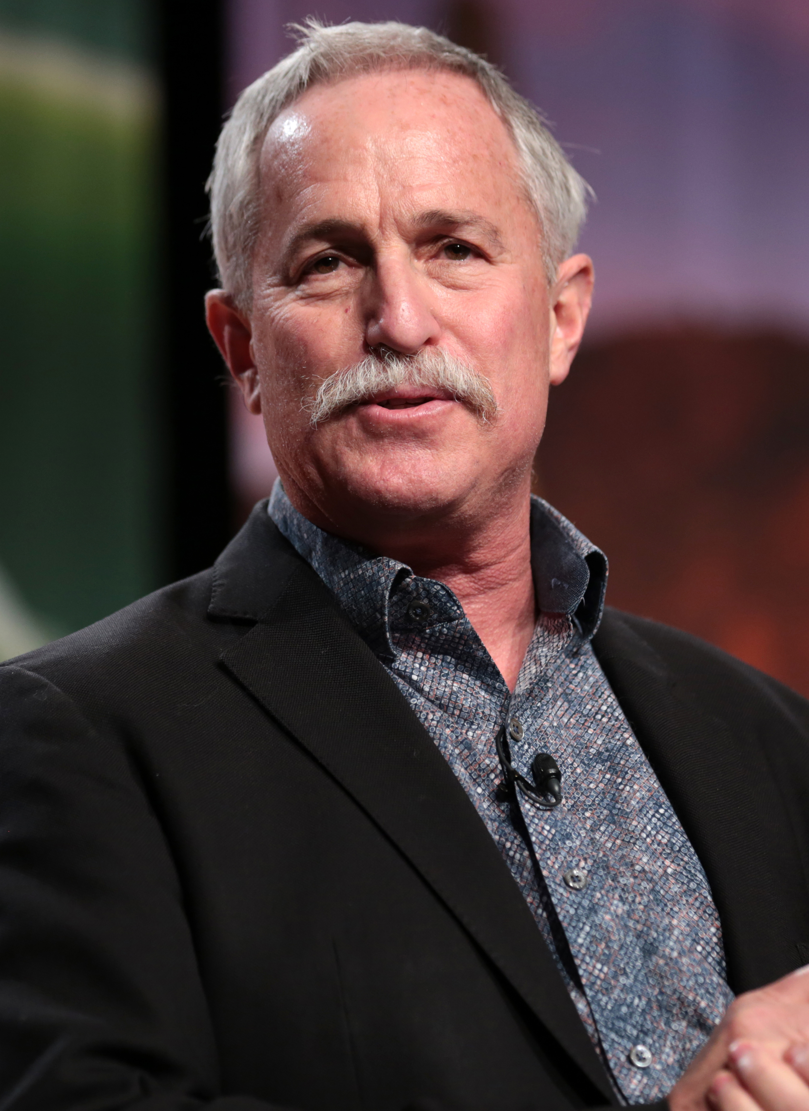 Joel Makower speaking at an event in Phoenix, Arizona.